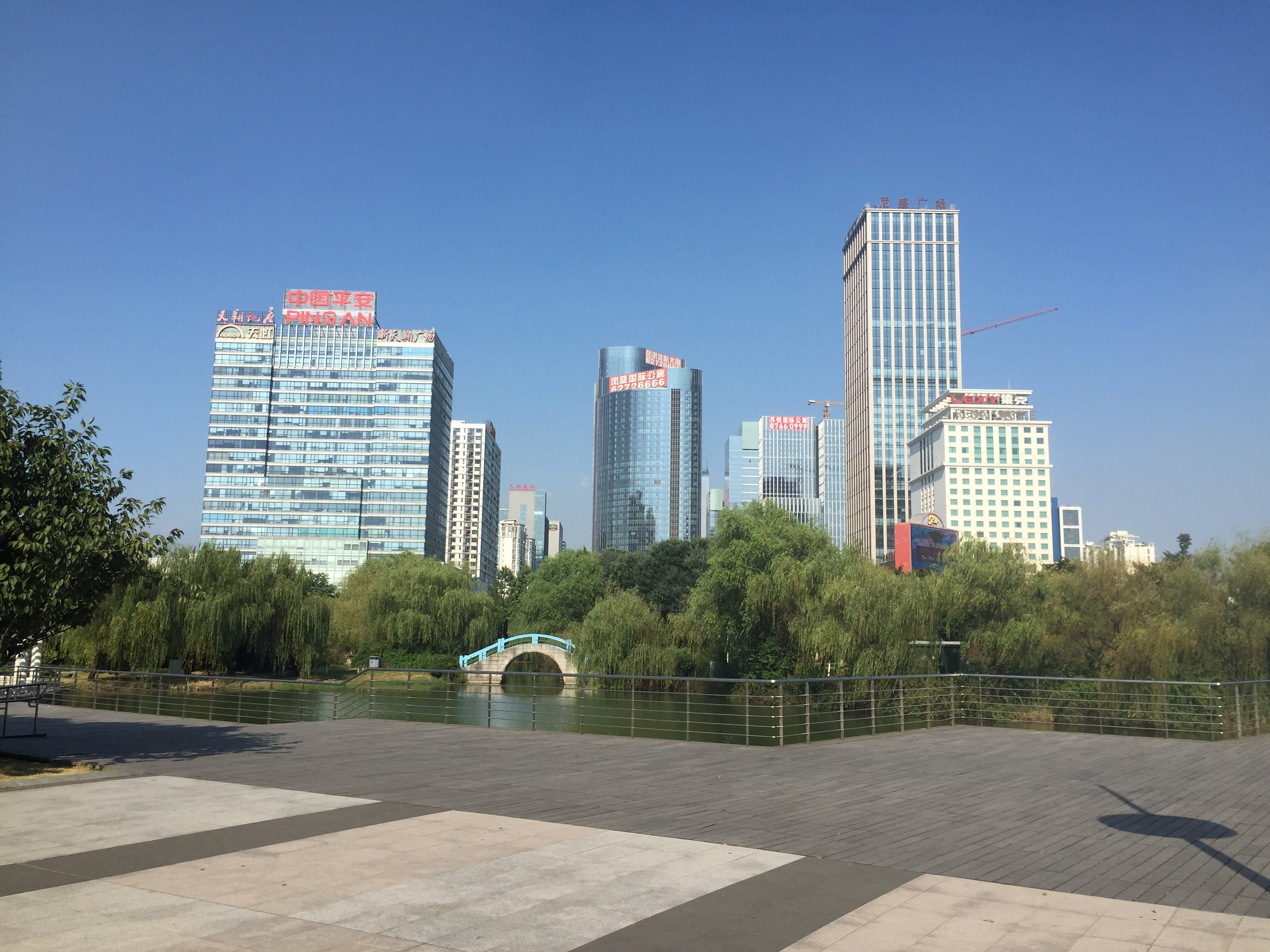 Central Park, Suzhou Industrial Park (August 3, 2015)